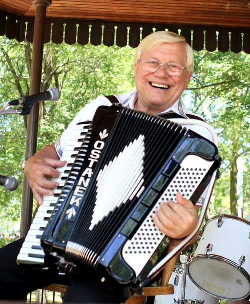 Walter Ostanek, also known as Canada's Polka King, at Marineland, Niagara Falls, Ontario, Canada